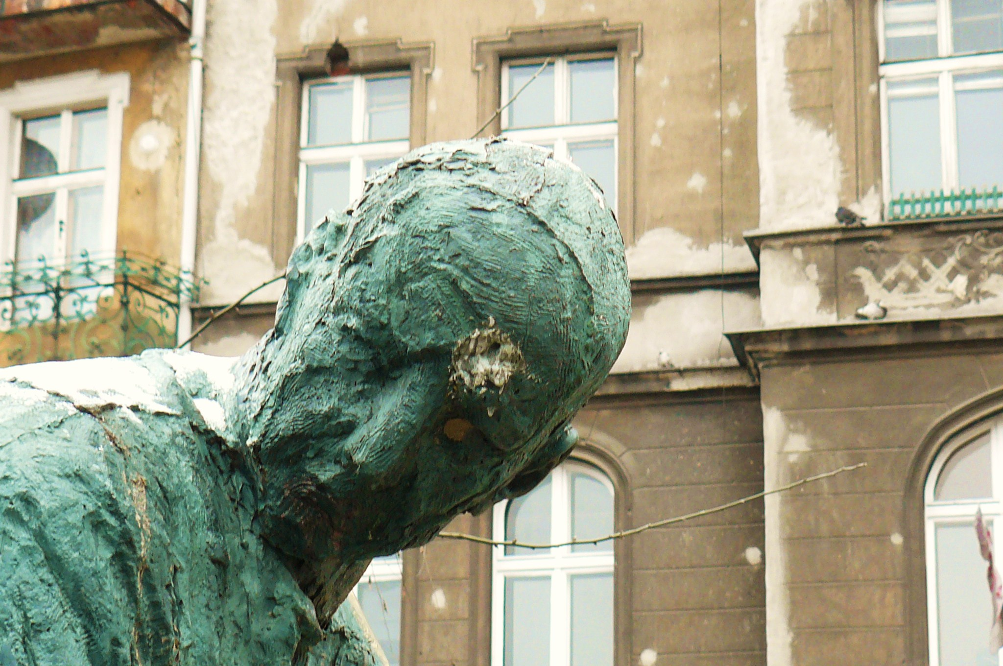 Not-Monument, Poznan.